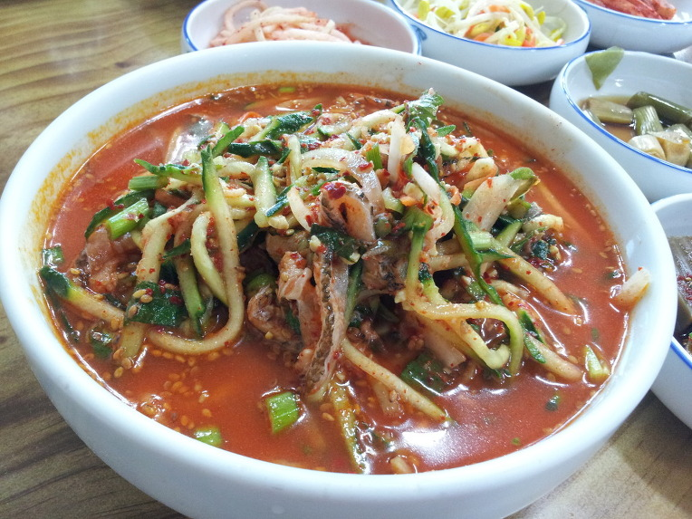 jaridom-mulhoe (raw pearl-spot chromis soup)